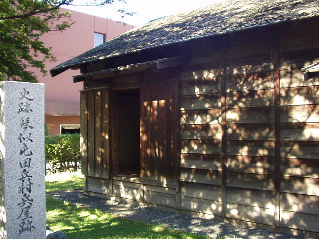 Tondenhei soldier's house in Kotoni. Kotoni, Nishi (West) ward, Sapporo, Hokkaidō prefecture, Japan.